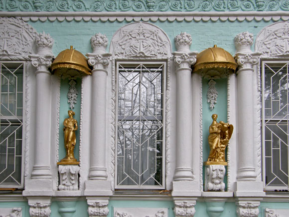 Former Dyakov's manor in 80 Lvivska Street, Kyiv, Ukraine